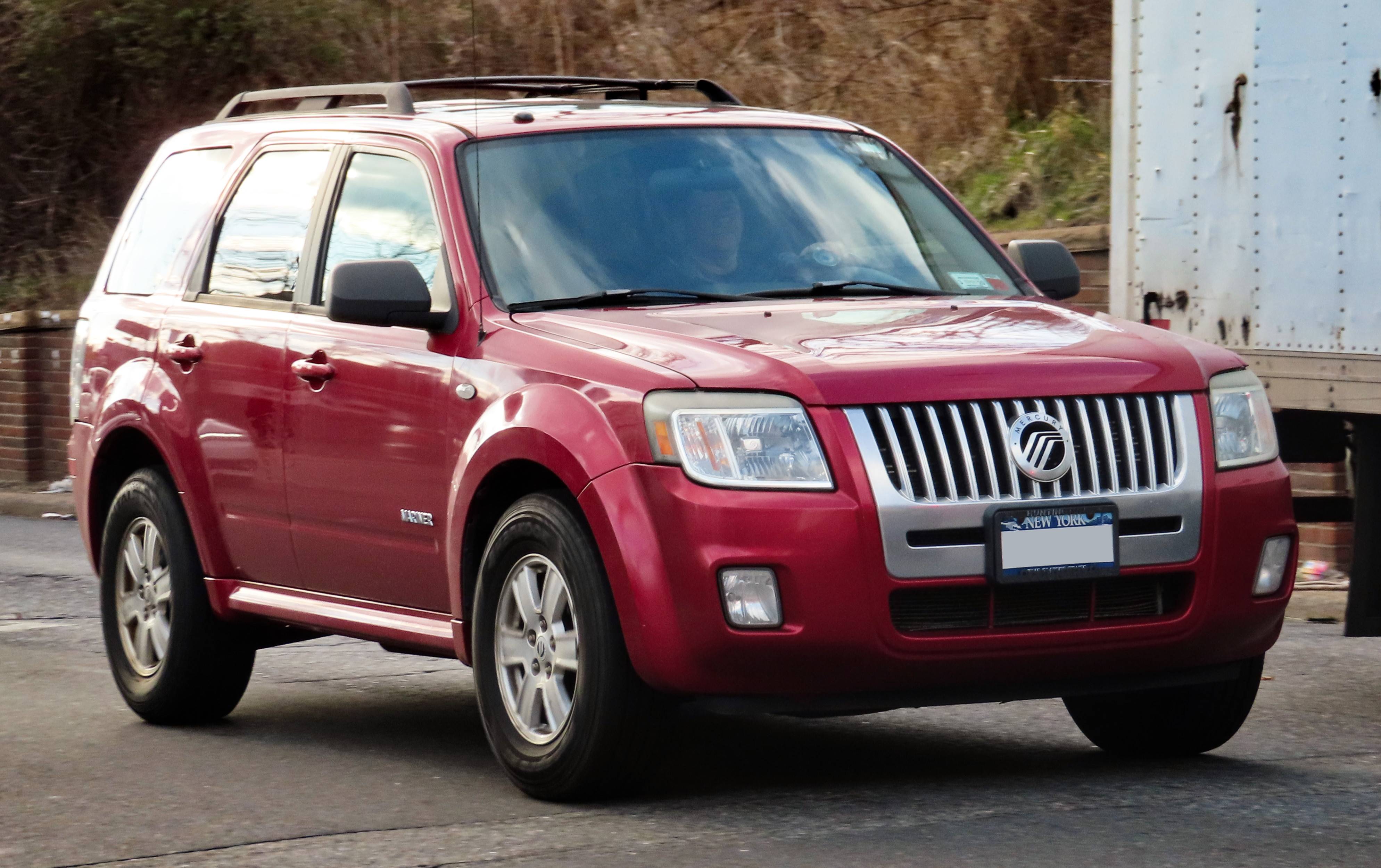 A 2008 Mercury Mariner photographed in Fresh Meadows, Queens, New York, USA